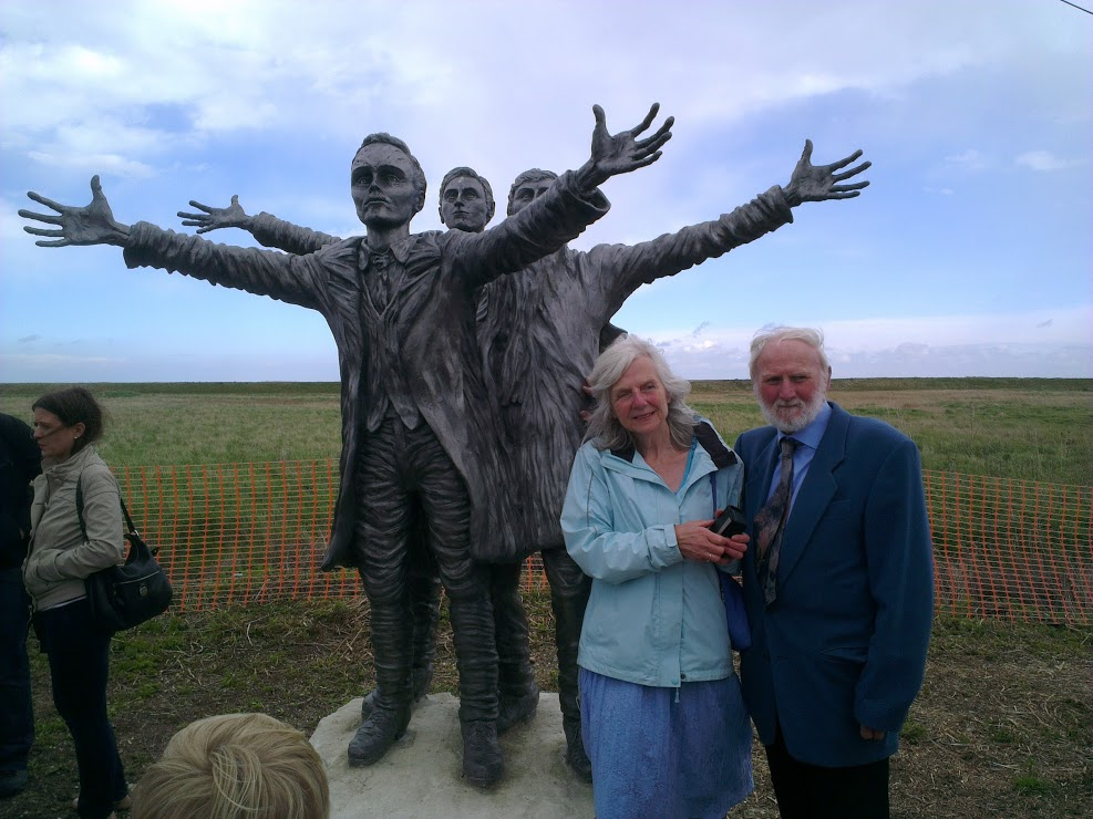 This picture is of the statue made of the short brothers, early pioners of flight (early 1900's) who built the wright brothers planes and created the first avionics member ship club and factories. The two people in this image are the Artist Barbara Street and her Husband on the day it was unveiled.